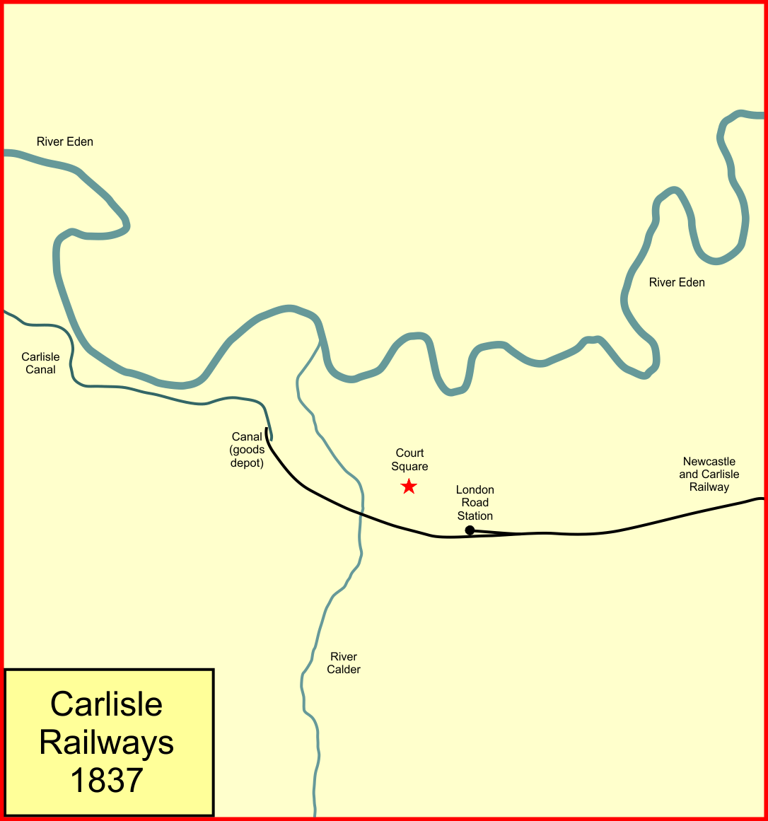 Railways of Carlisle, England, in 1843